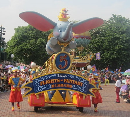 Dumbo during the paradise at Hong Kong Disneyland